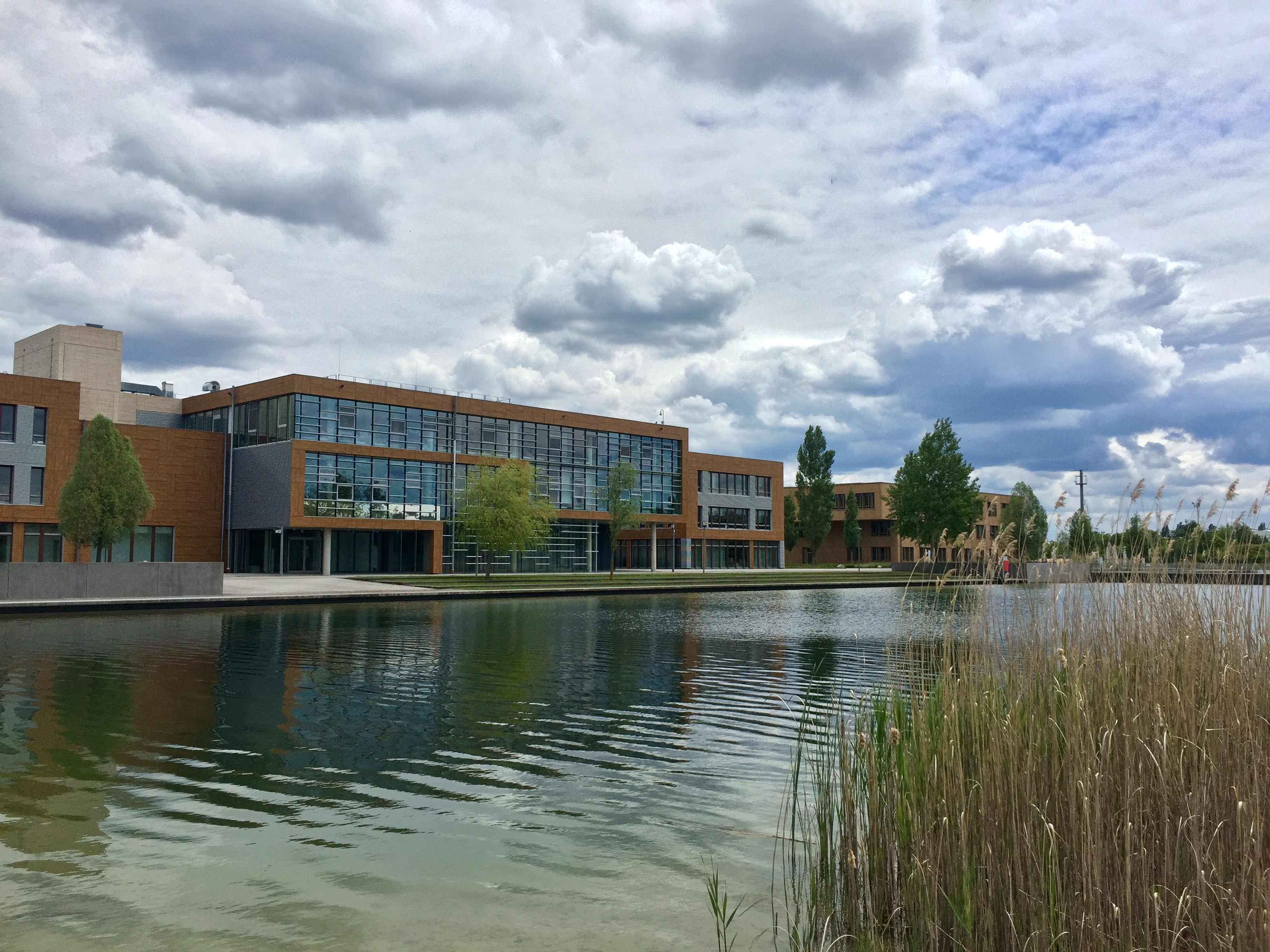 Headquarters of Infineon near Munich ("Campeon")